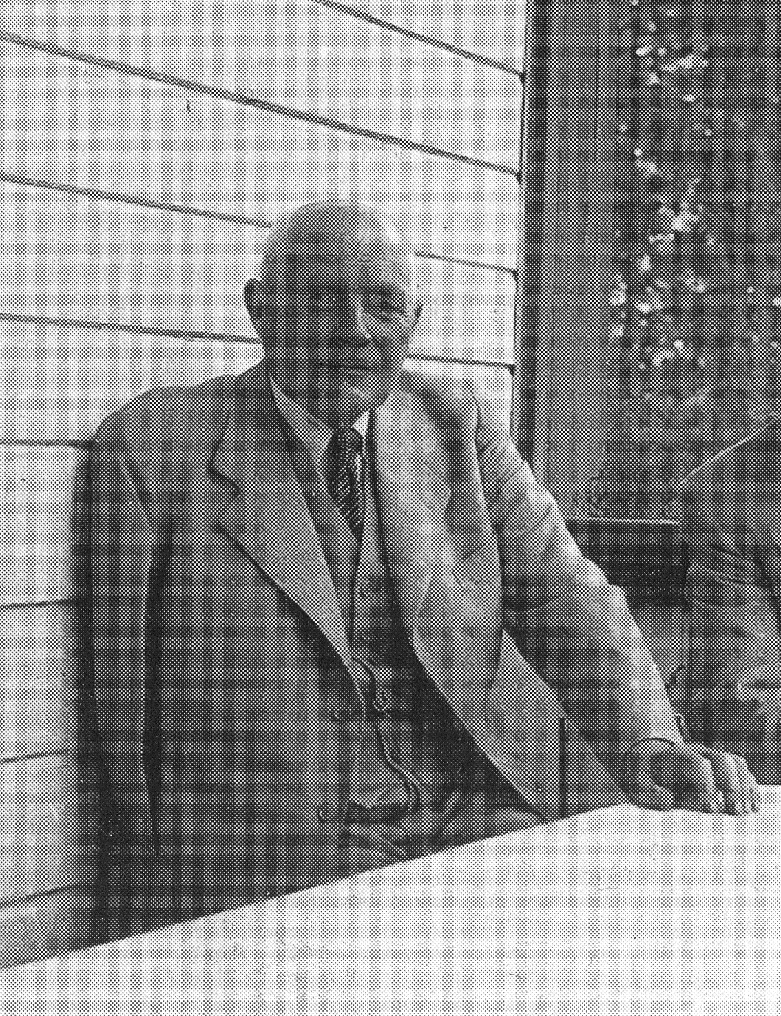 Lieutnant Colonel Ragnar Nordström. He lost his right arm in Finland's war of liberty.